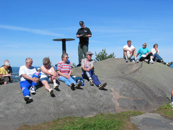 Picture of Bjønnåsen, Rælingen, Norway during summer